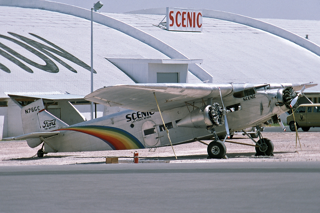 Scenic Airlines Ford 5-AT-B Tri-Motor at McCarran International Airport